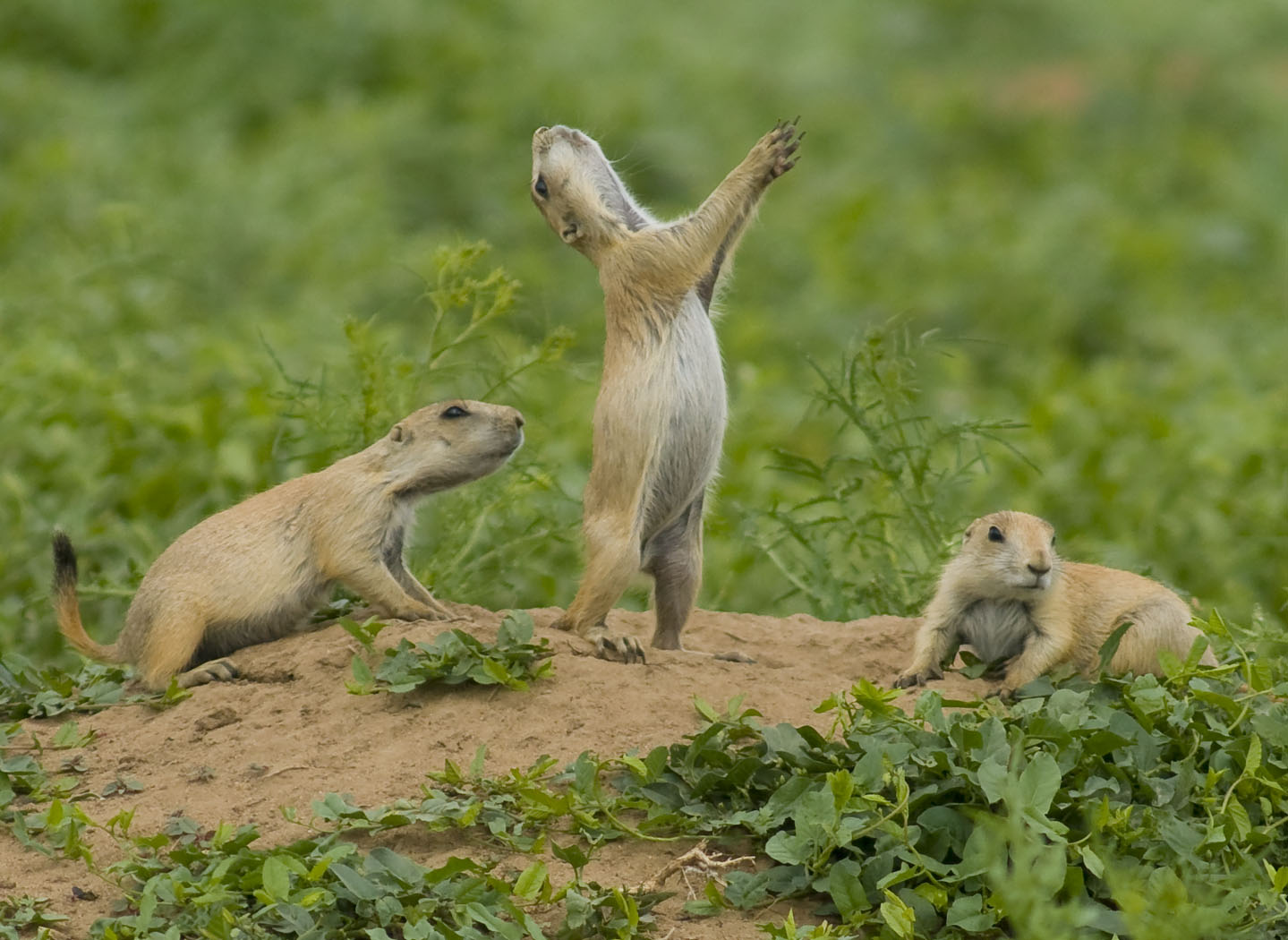 Young prairie dogs in Rocky Mountain Arsenal National Wildlife Refuge.